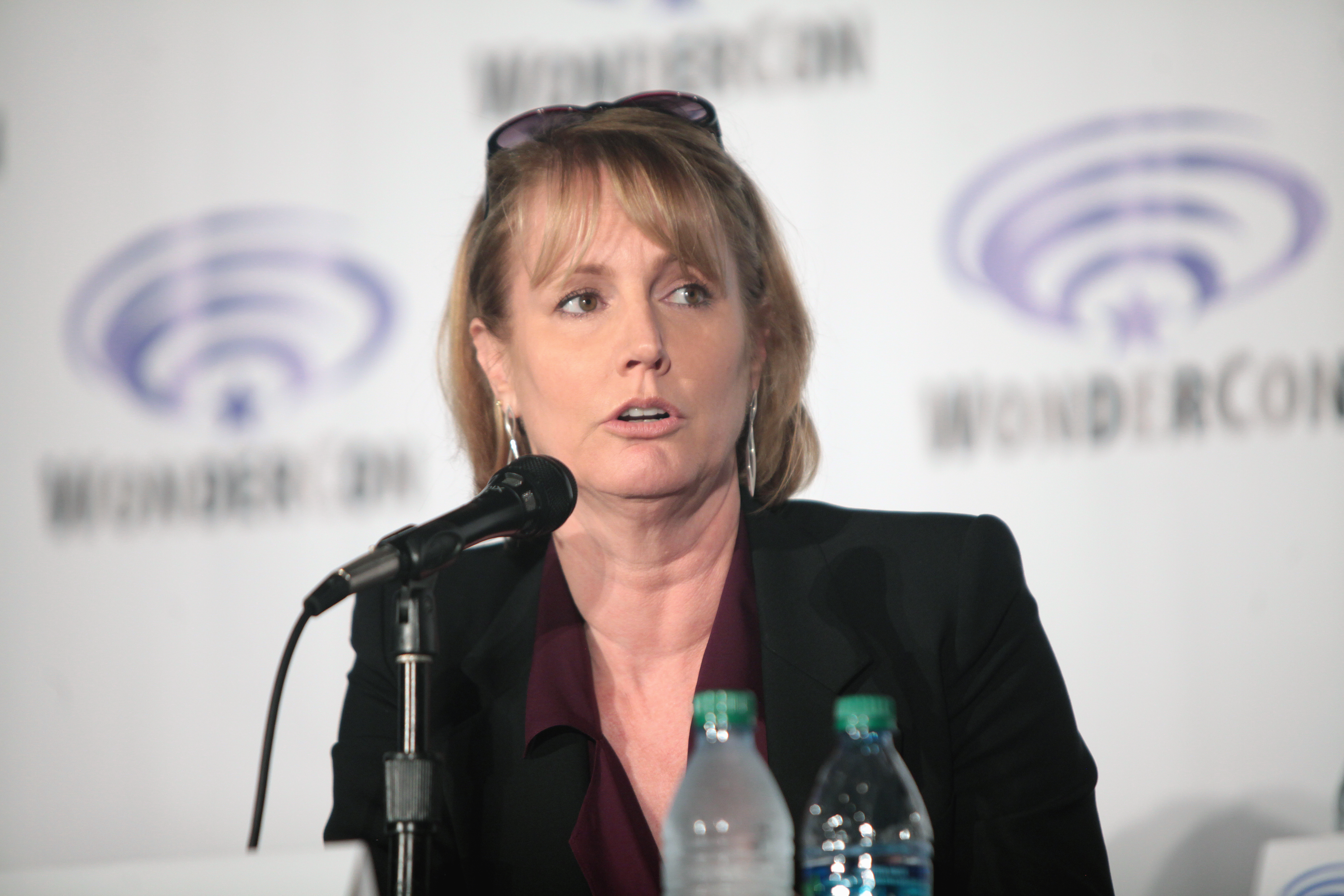 Melissa Rosenberg speaking at the 2016 WonderCon, for "TV Guide Magazine's Fan Favorite Showrunners", at the Los Angeles Convention Center in Los Angeles, California.